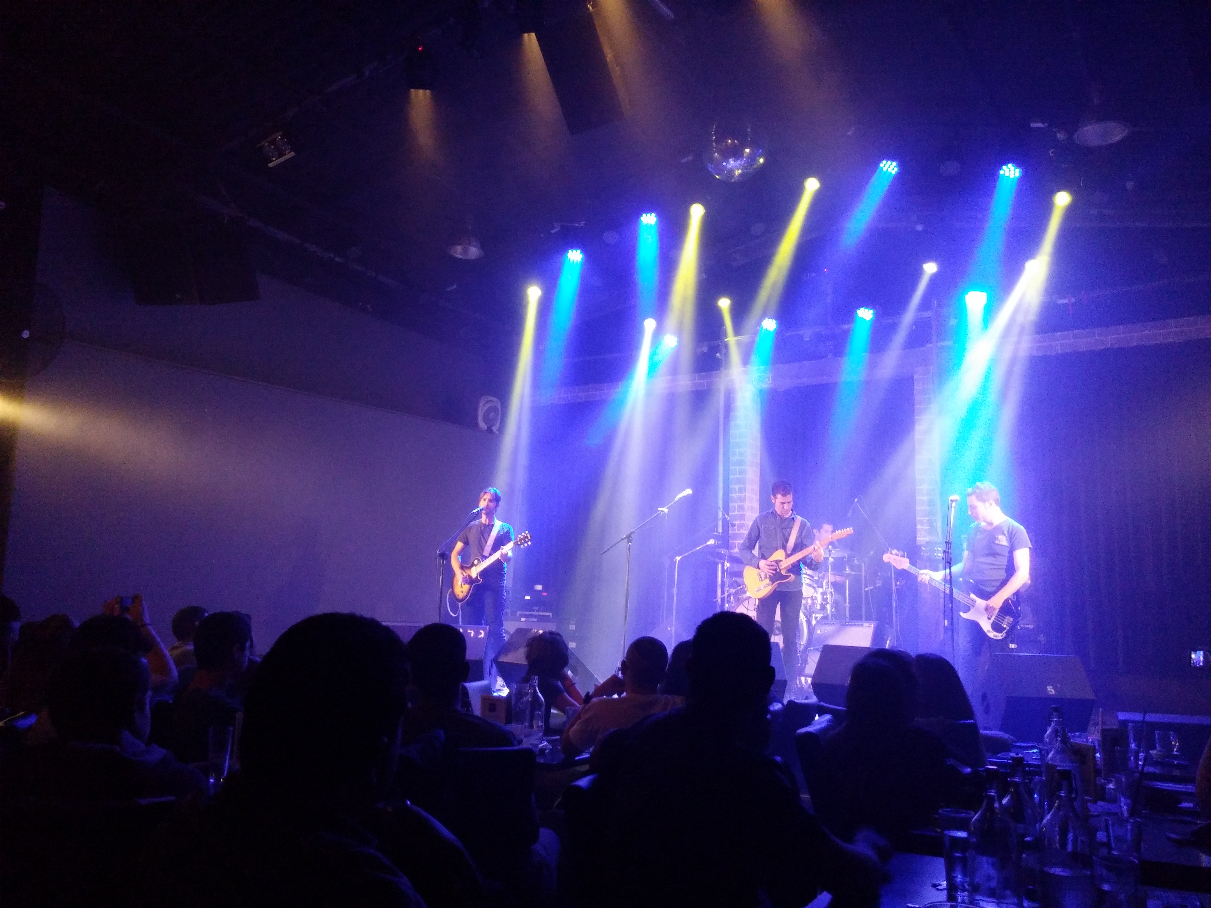 Monica Sex (Hebrew: מוניקה סקס; also spelled Monika Sex) is an Israeli rock band that is very popular among young fans and the contemporary music scene.